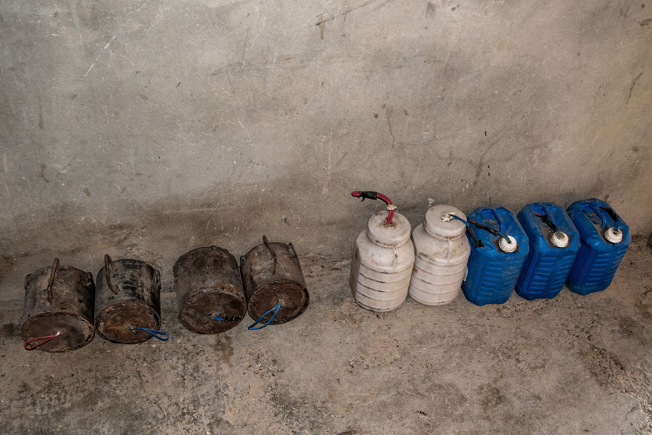 Coalition and Syrian Democratic Forces discover caches of improvised explosive devices left behind by Daesh as they advance the front lines in the Middle Euphrates River Valley in Syria, Jan. 26, 2019. Explosive ordnance disposal technicians assisted in the disposal of approximately 100 pounds of total unexploded ordnance to prevent injury to civilians and military personnel, promoting regional safety and stability. (U.S. Army Photo by Staff Sgt. Scott Griffin)